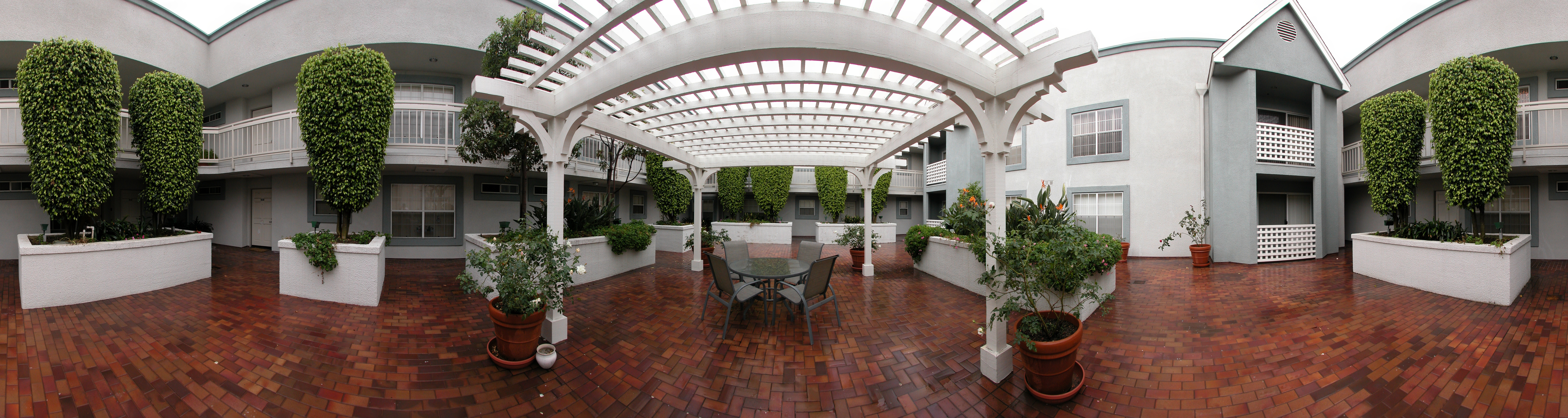 Panorama of the courtyard of my old apartment complex after it had been raining. Equipment used was a Nikon Coolpix 5000, Kaidan pano head, and Manfrotto tripod. Image was stitched together using PTgui.